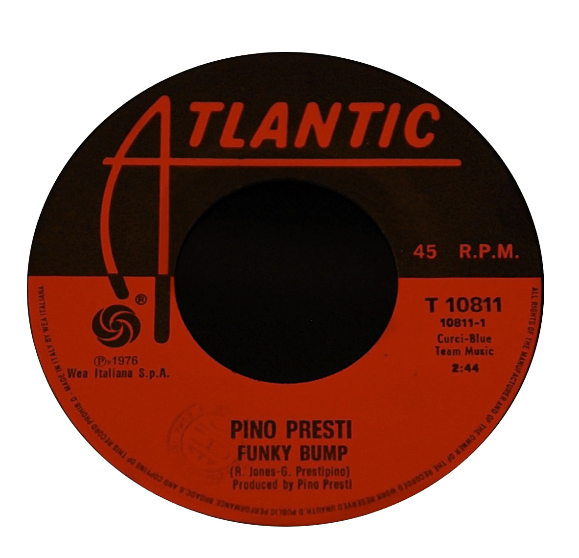 Funky Bump (label)